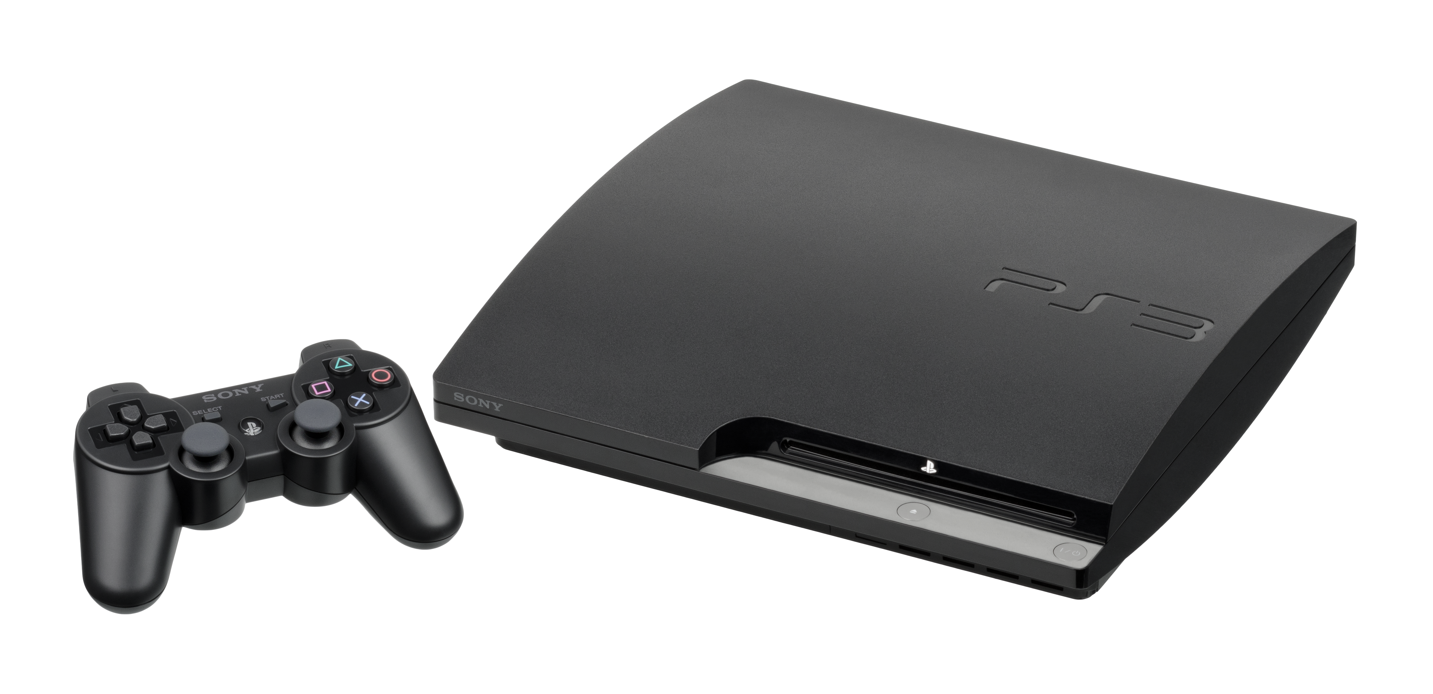 The Sony PlayStation 3 (PS3) video game console, shown with DualShock 3 controller. This is a seventh generation console first released in 2006 as the successor to the PlayStation 2. This model is the "Slim", model 2001A, the first revision of the PlayStation 3 hardware that was made much lighter and smaller than the previous version.